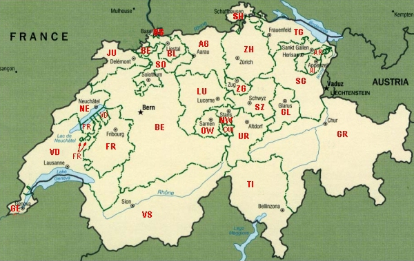 Map of the cantons of Switzerland